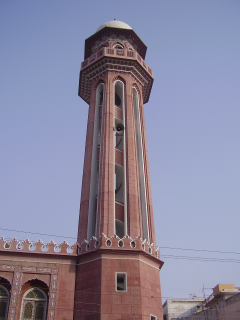 Minar of Sunehri mosque in Peshawar Pakistan